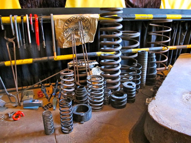 Springs manufactured by Lesjöfors AB in the Lesjöfors museum